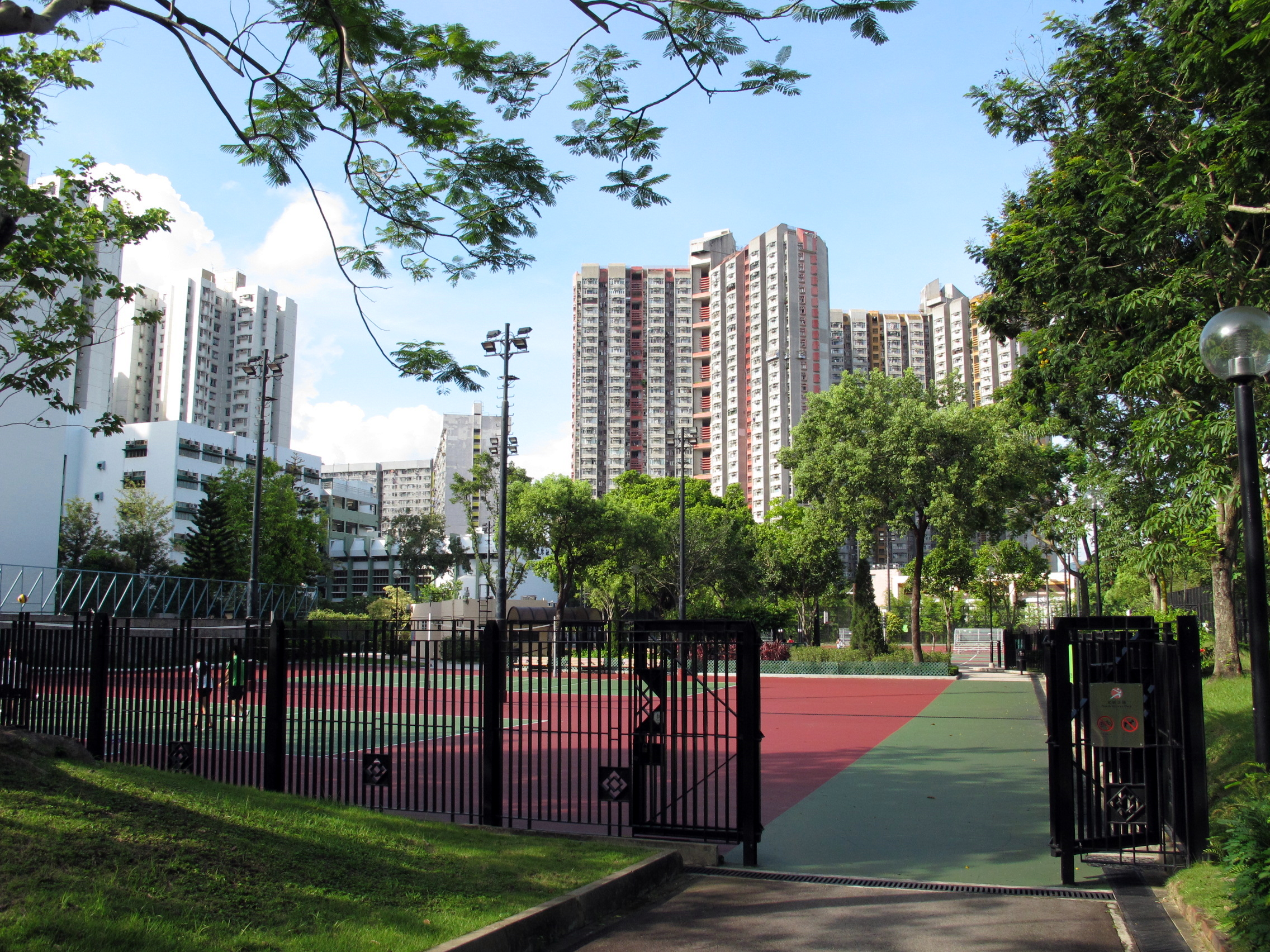 North District Park Phase 2